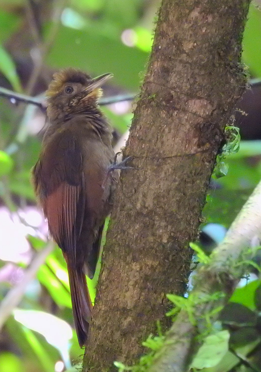 DSCN1201-new Tawny-winged Woodcreeper Dendrocincla anabatina, Puntarenas Province, Costa Rica 2016